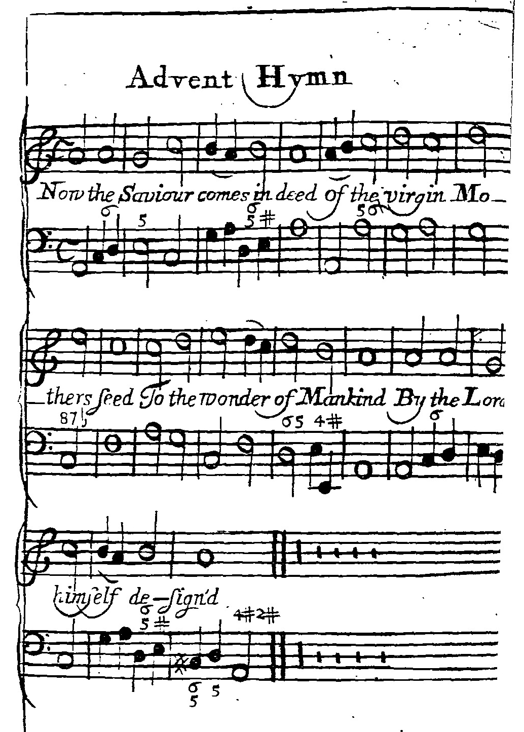 First hymn "Nun komm, der Heiden Heiland" from the first edition of Psalmodia Germanica a collection of Lutheran hymns translated into English by John Christian Jacobi with contributed hymns of Isaac Watts